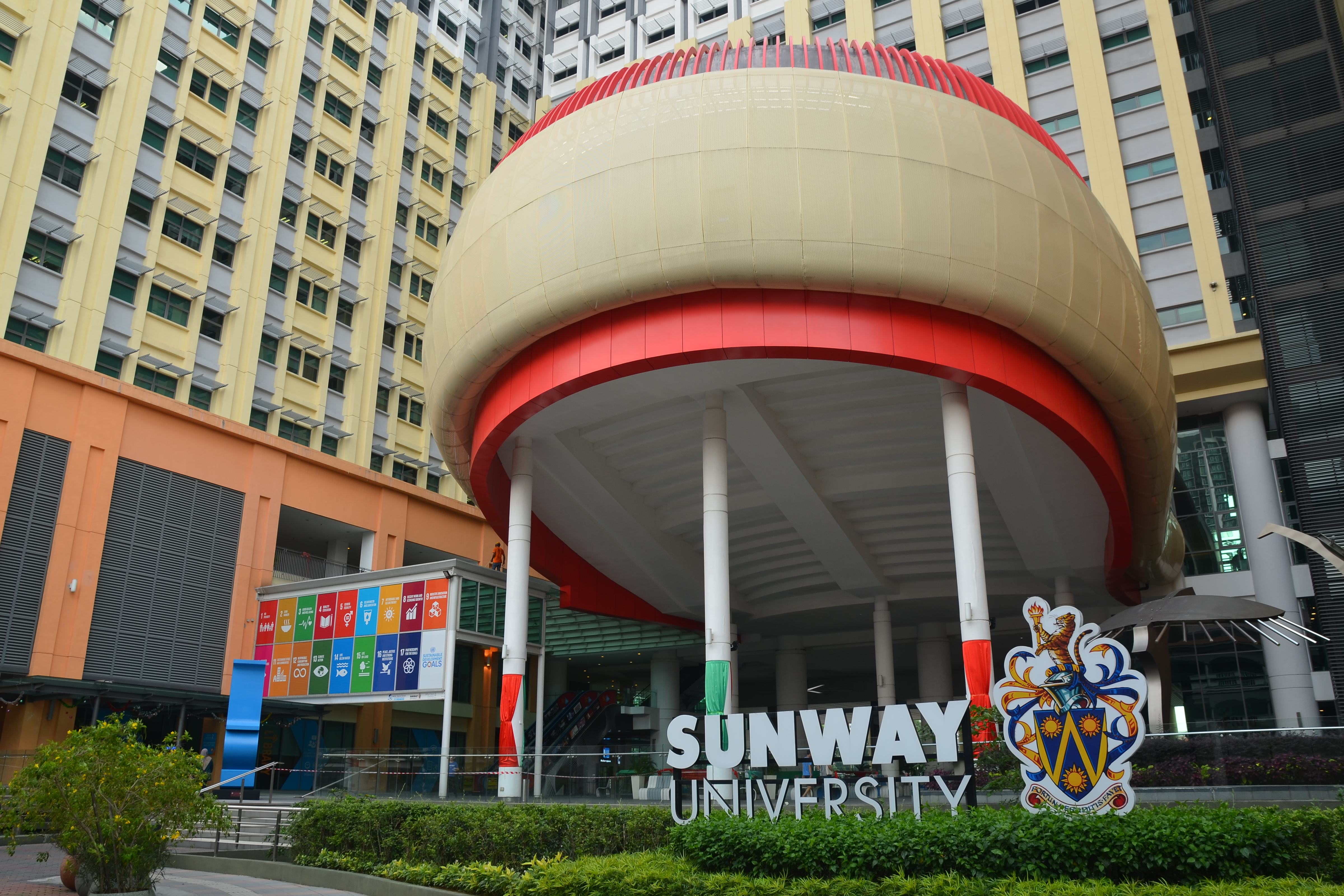 2015 building of the Sunway University campus.